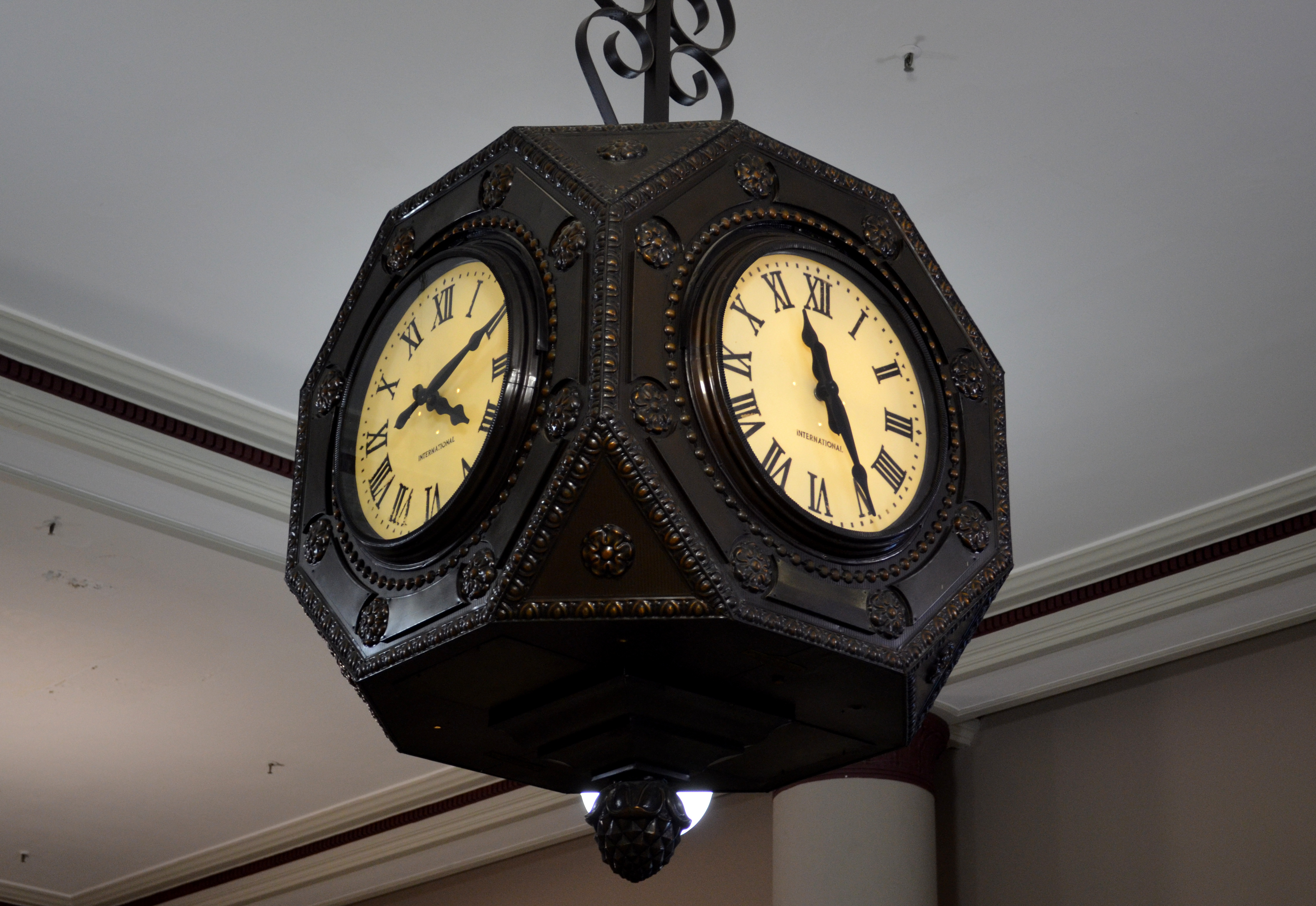 The clock at the Boston Store in Erie, Pennsylvania. Inspired the Erie-phrase to "meet under the clock".